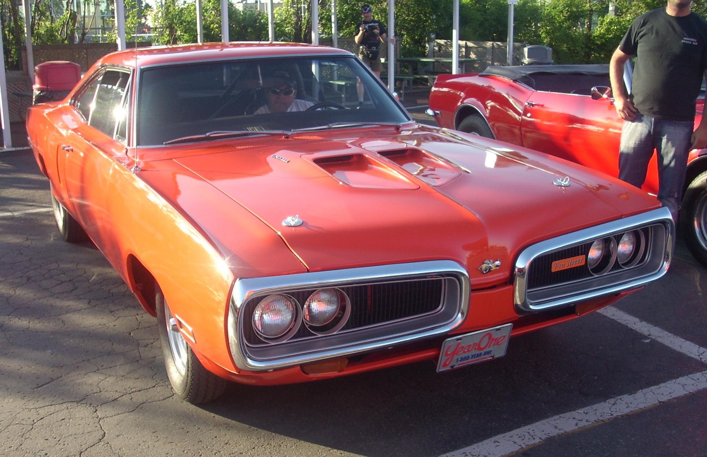 1970 Dodge Coronet Super Bee photographed in Montreal, Quebec, Canada at Gibeau Orange Julep.